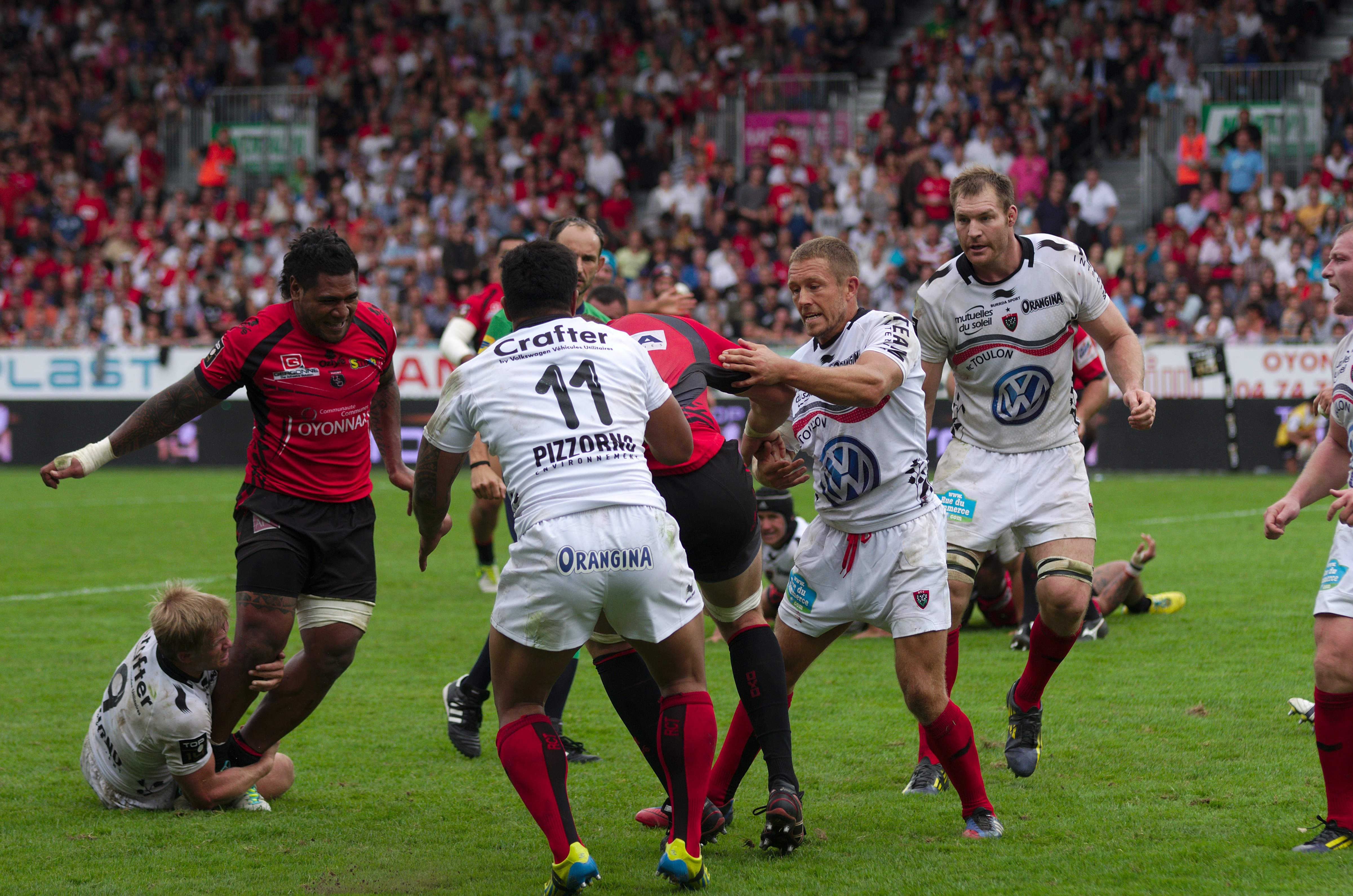 USO - RCT - 28-09-2013 - Stade Mathon - Plaquage